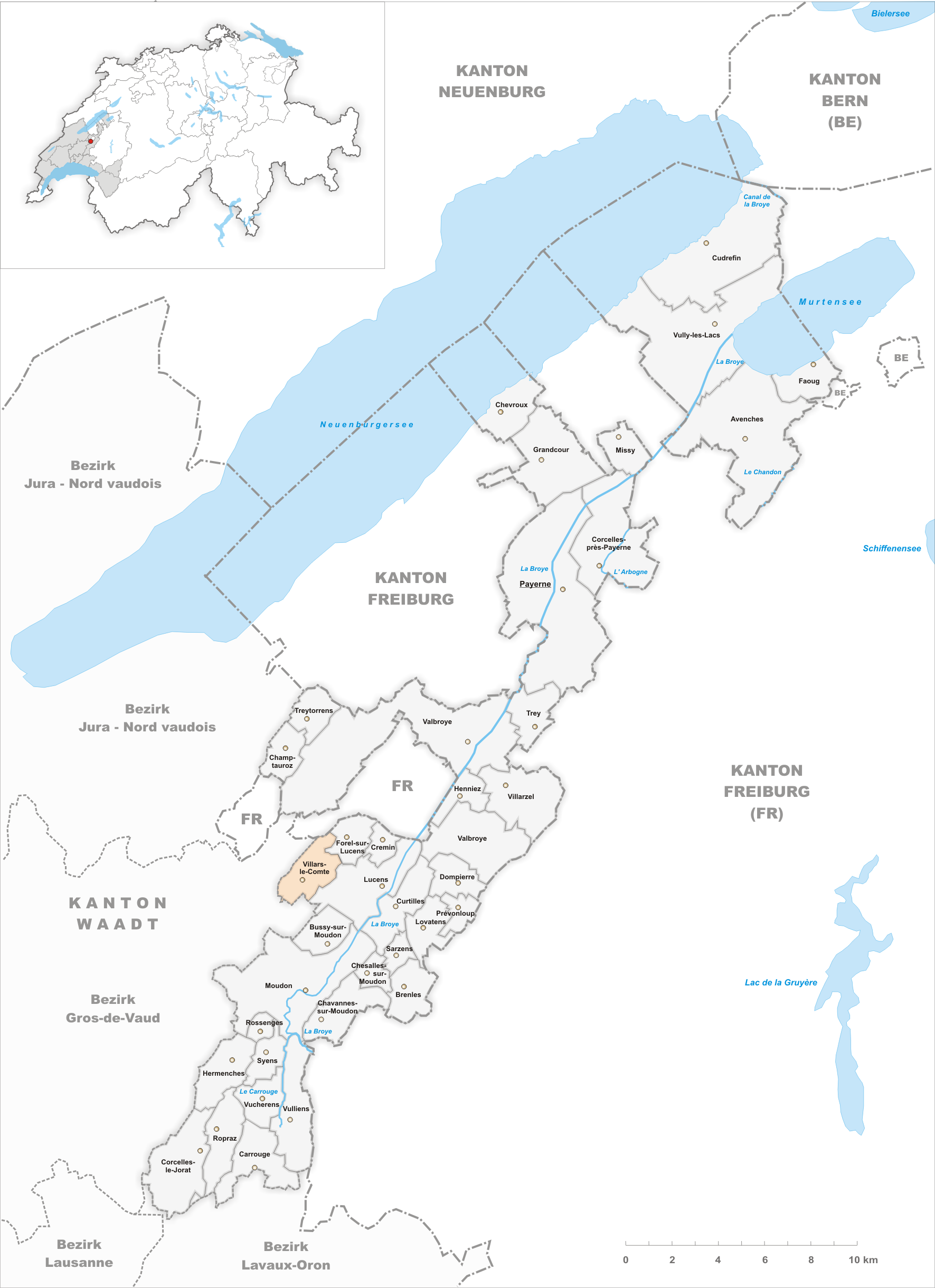 Municipality Avenches